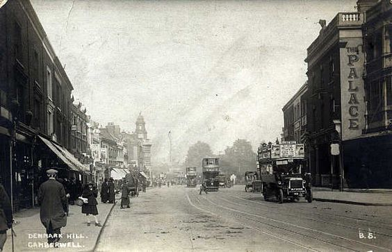 Denmark Hill, Camberwell, early 20th century